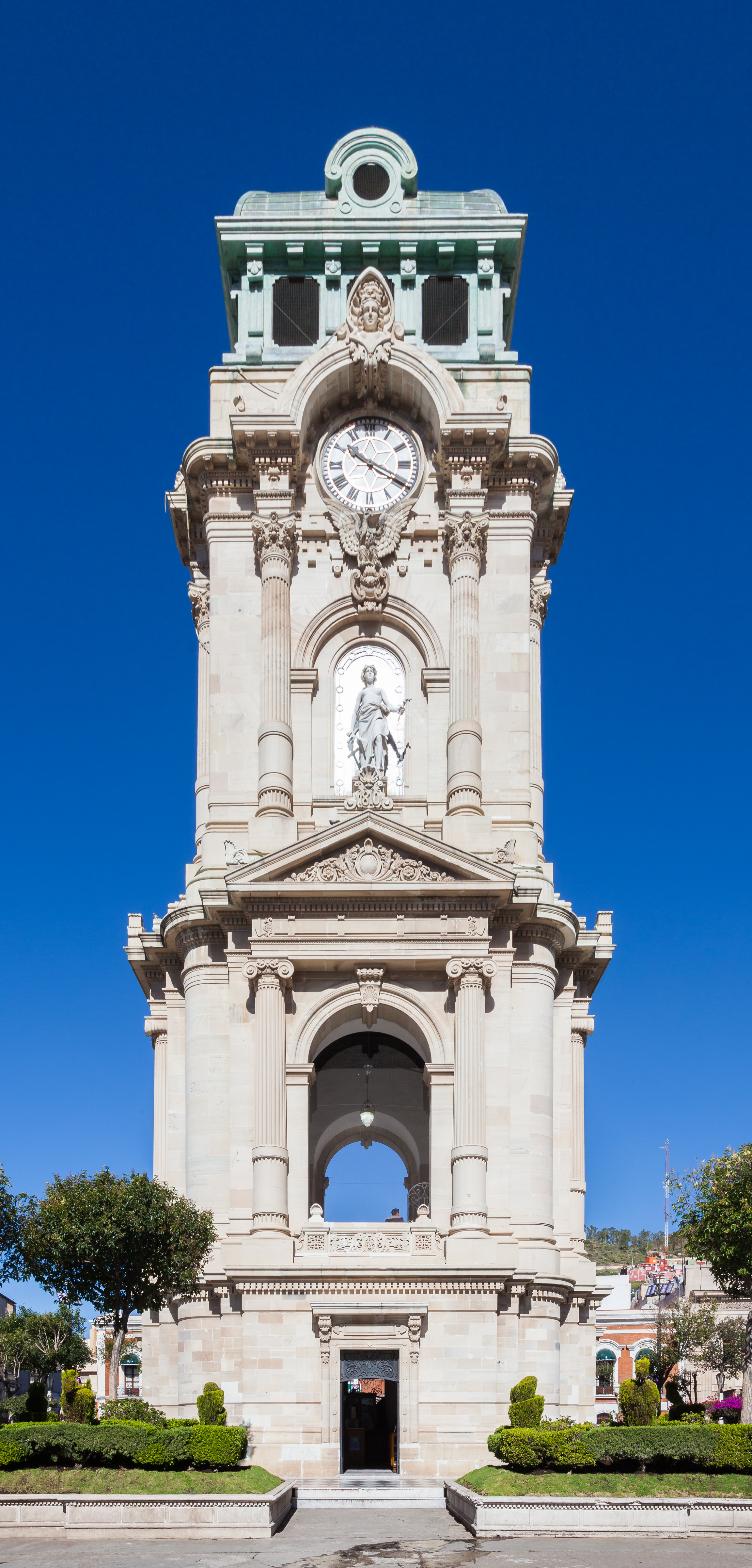 Monumental Clock, Pachuca, Hidalgo, Mexico